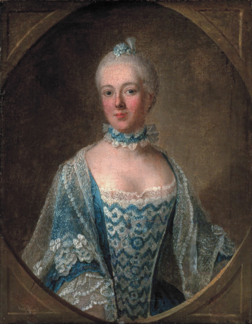 Isabella Agneta Elisabeth van Tuyll van Serooskerken, called Belle de Zuylen, future Isabelle de Charrière (1740-1805) oil on canvas 40 x 32 cm 1759